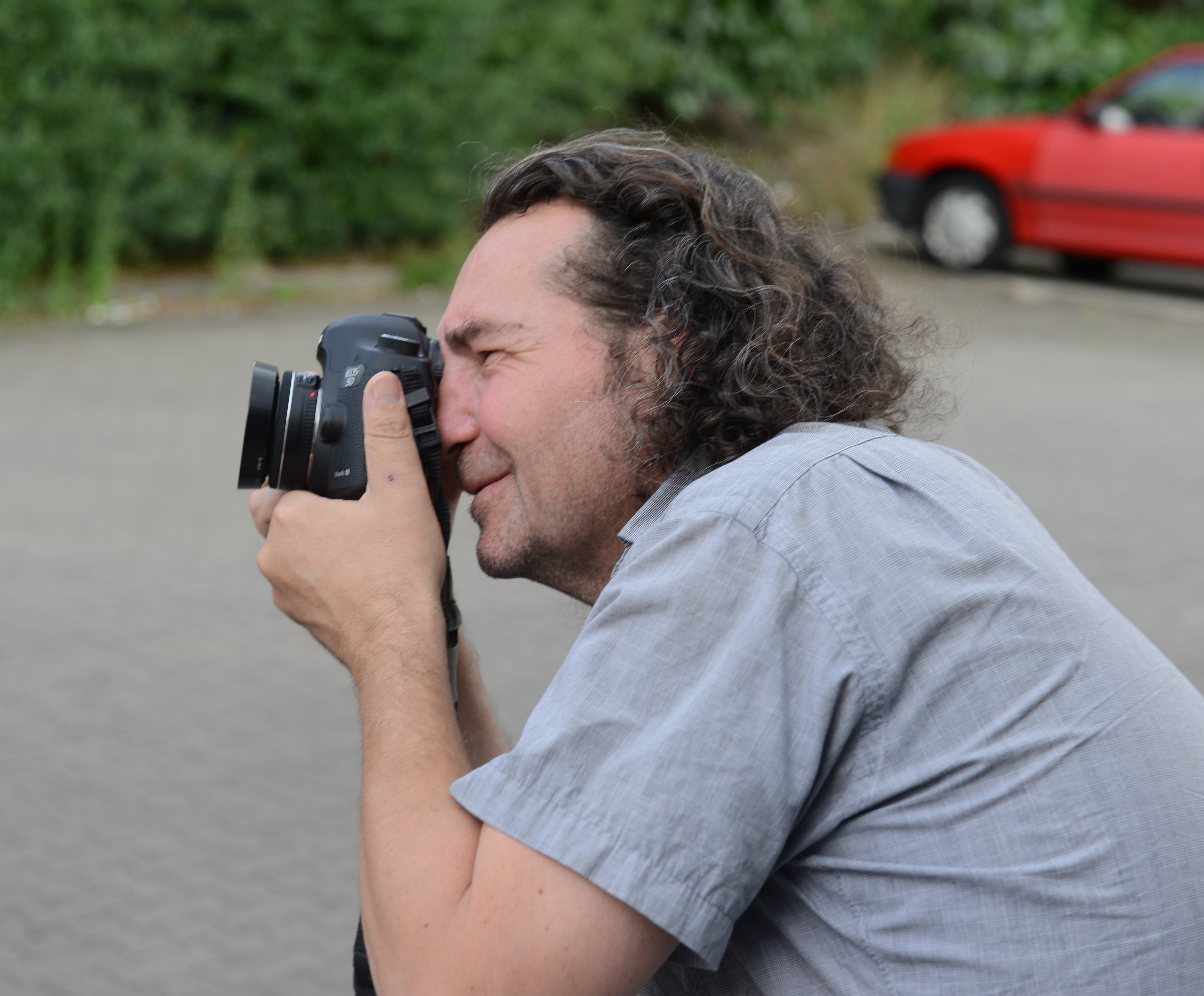 Thomas Karsten at Work